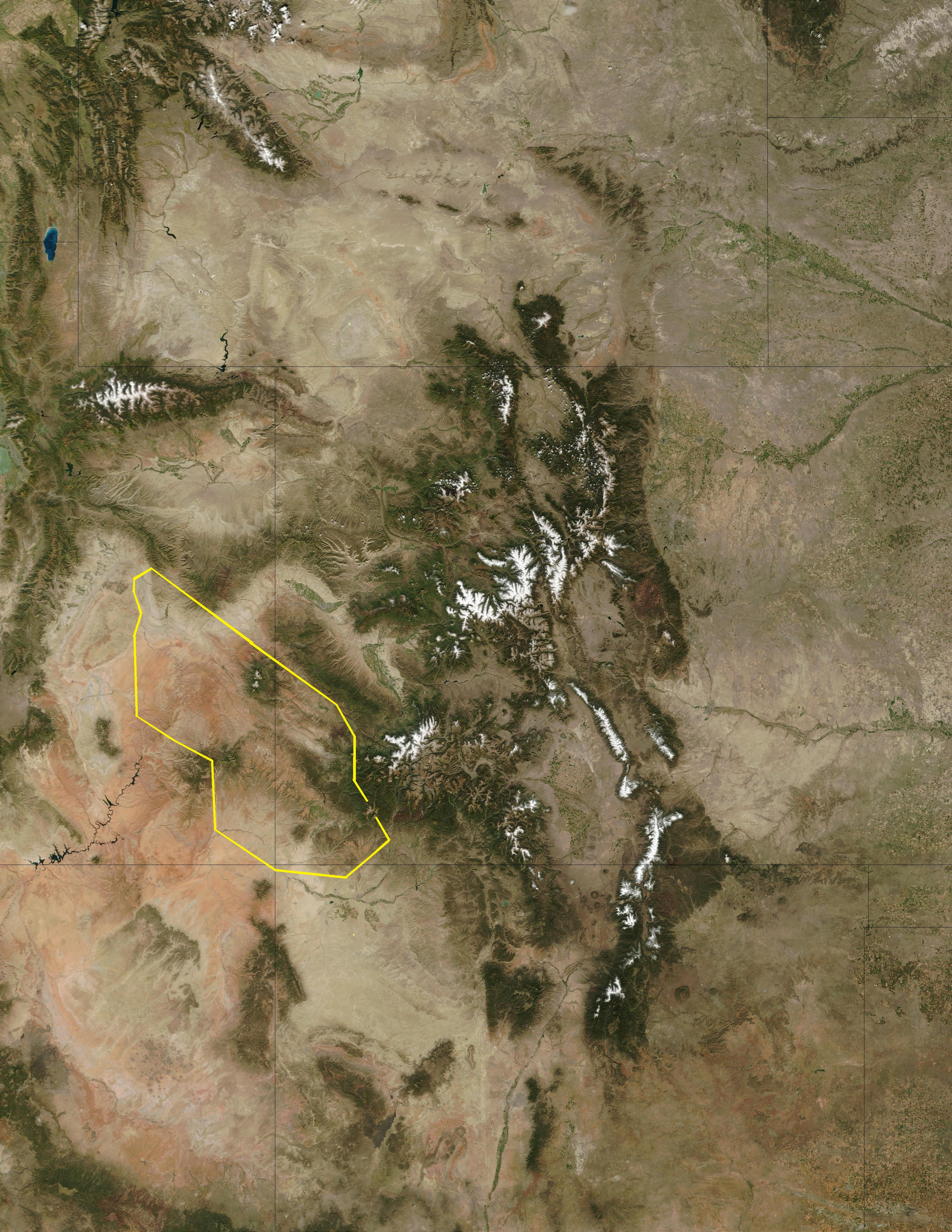 Rough outline of the Paradox Basin in yellow. Based on: Author: Jacques Descloitres, MODIS Land Rapid Response Team at NASA Goddard Space Flight Center. Source URL